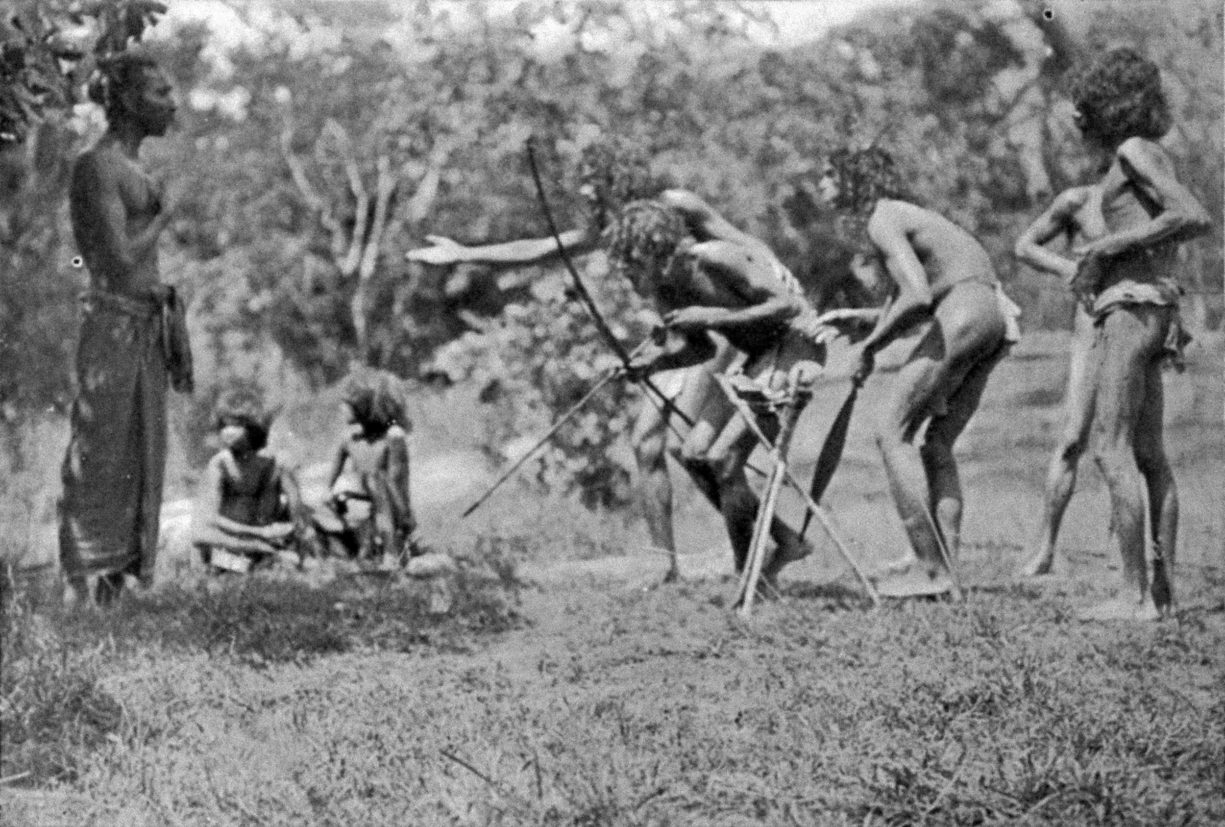 Kirikoraha ceremony. The shaman tracking the Sambar (henebedda). The shaman shoots the sambar (henebedda). General Collections Keywords: Sri Lanka; Magic; agricultural, hunting; indigenous medicine; non-european medicine